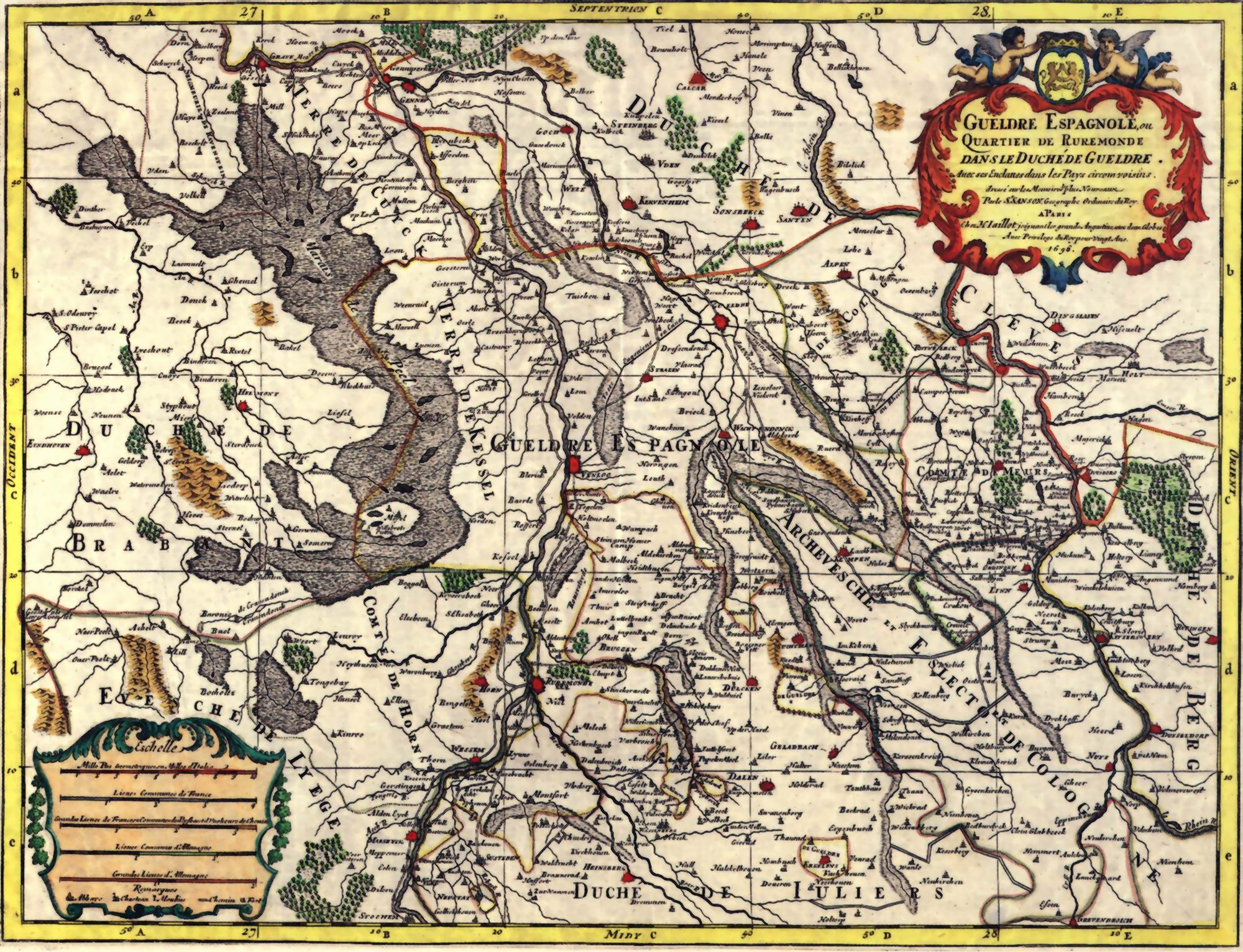 Spanish Upper Guelders